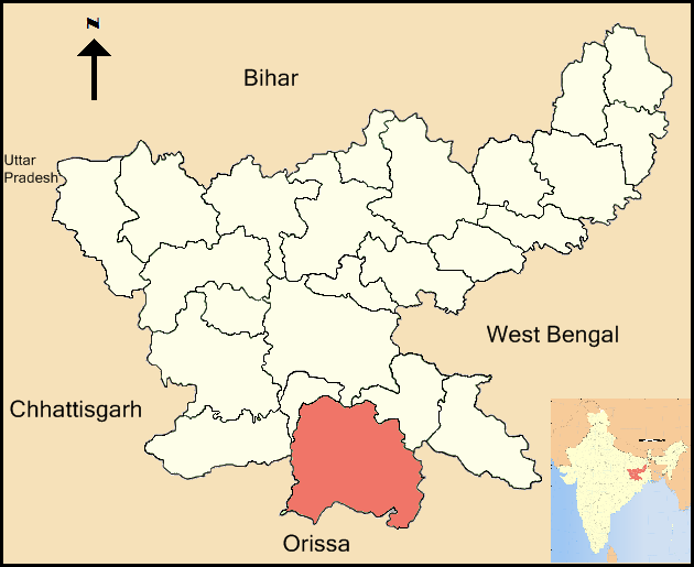 A locator map of West Singhbhum district, Jharkhand state